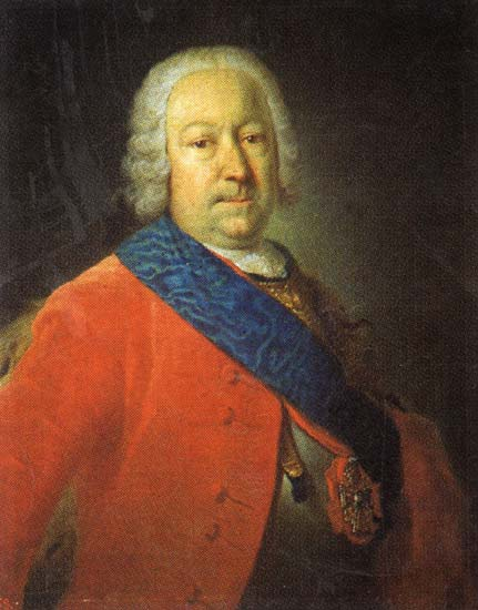 Portrait of Alexandr Borisovich Kurakin (1697-1749)